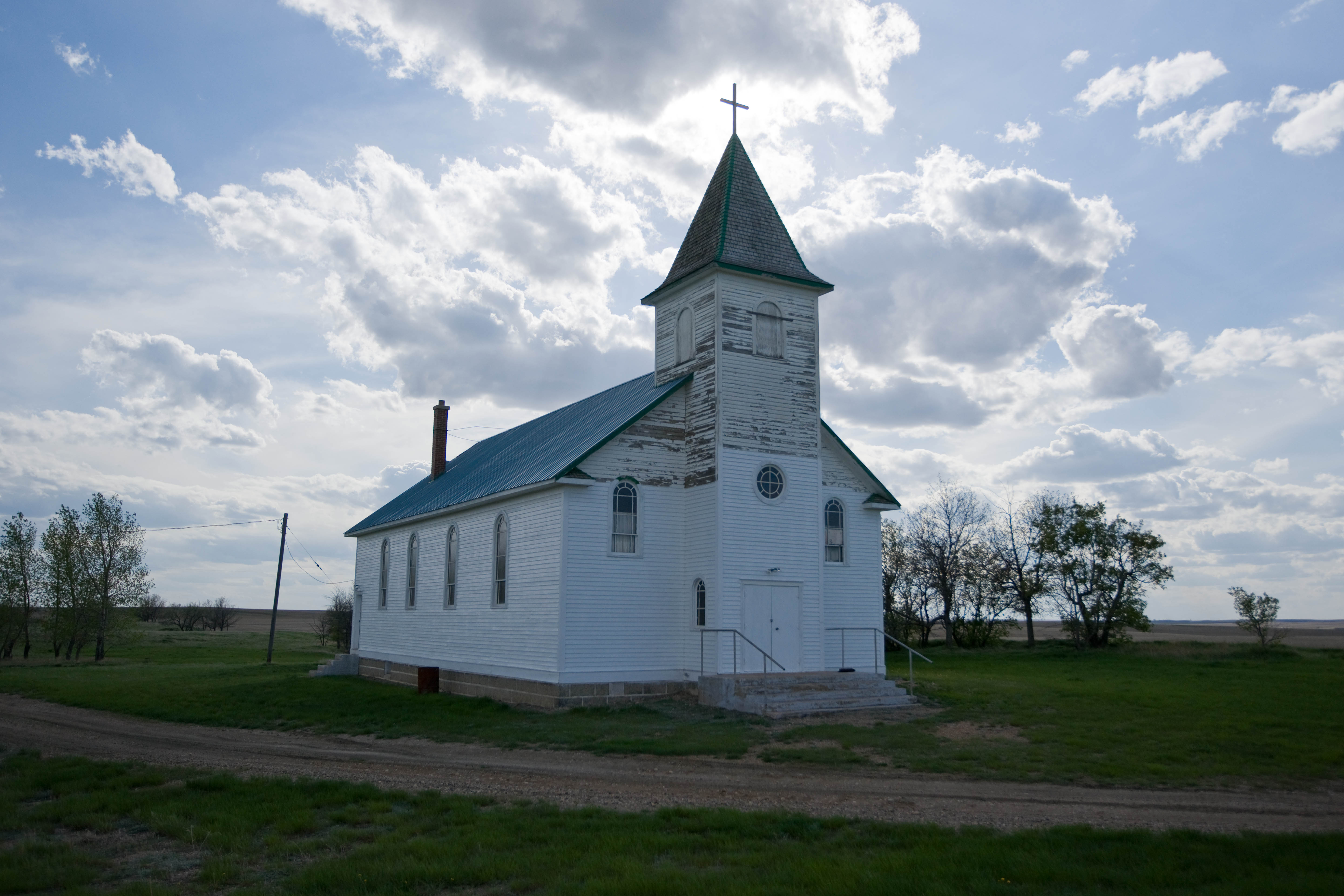 From